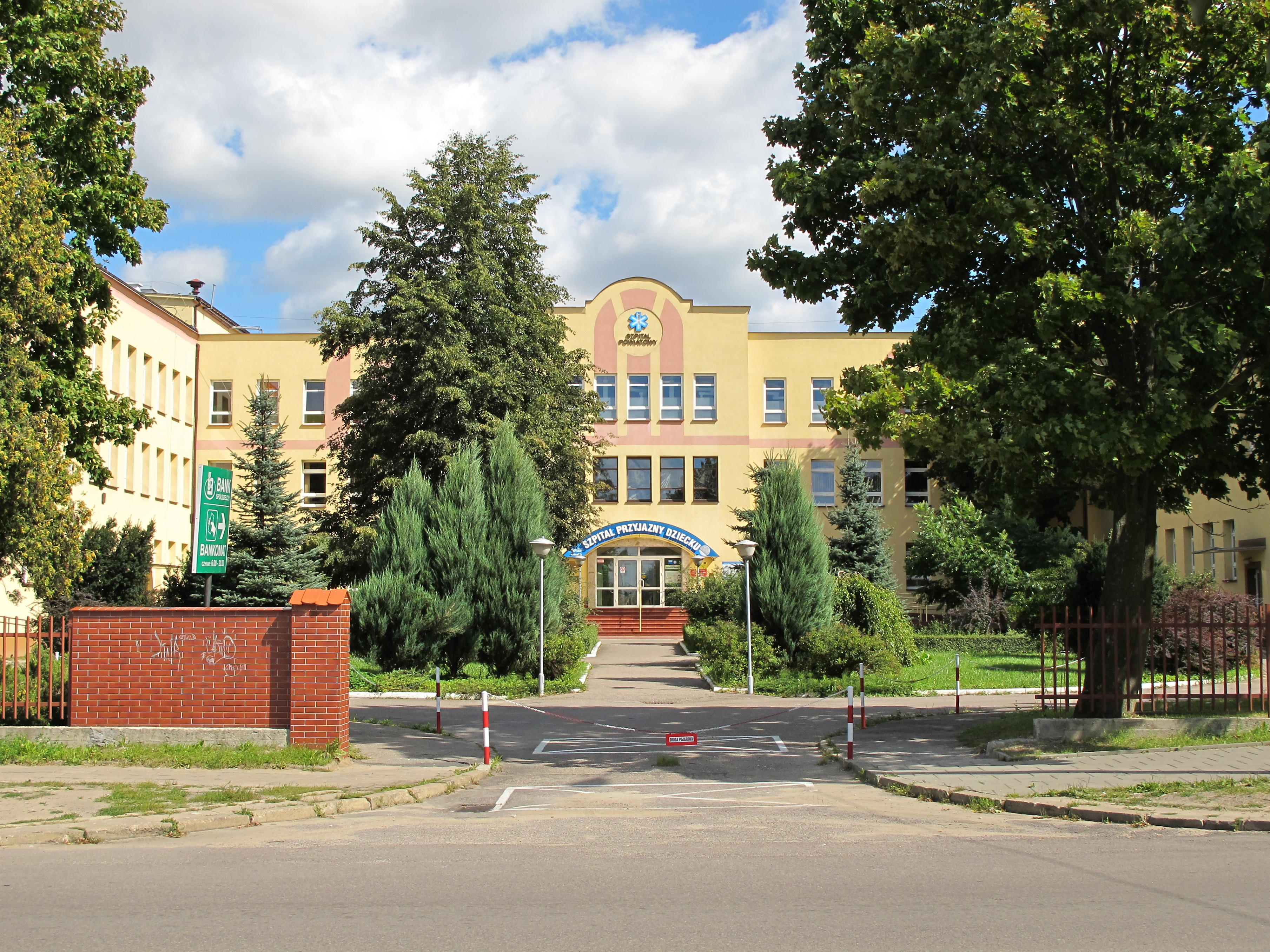 District hospital by Kleszczelowska street in Bielsk Podlaski, gmina Bielsk Podlaski, podlaskie, Poland